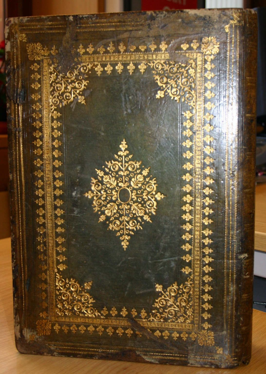 Style: Centre and cornerpiece made of small tools; Caption: Lower cover; Colour: Green; Edge: Gilt, gauffered and painted